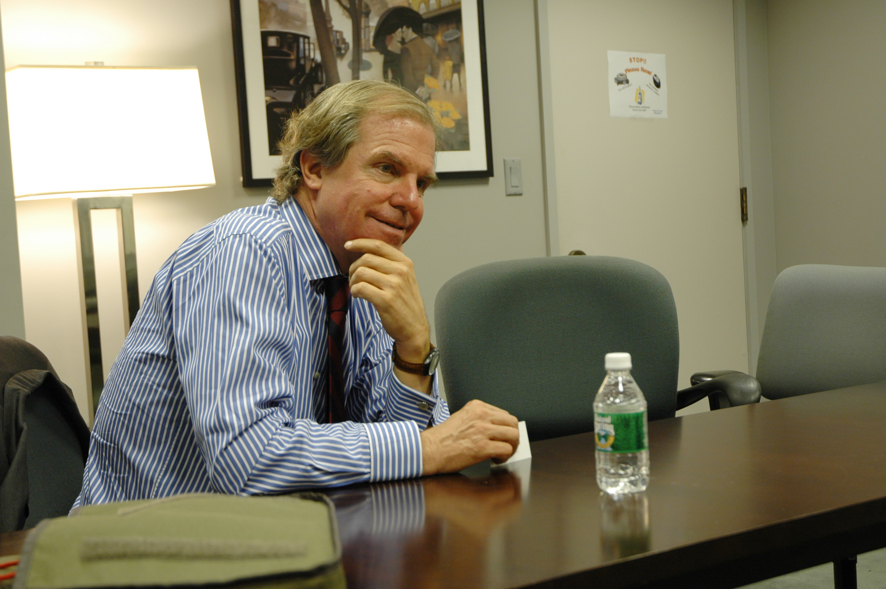 Nicholas Negroponte visits our office. M.I.T. Media Lab.